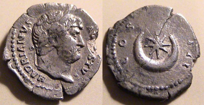 Coin of Roman emperor Hadrian Hadrianus. 117-138 AD. AR Denarius (3.36 gm). Struck circa 128-132 AD. HADRIANVS AVGVSTVS P P, laureate head right COS III, eight-rayed star within crescent. RIC II 355; Strack 213d2; BMCRE 512 var. (laureate, draped, and cuirassed bust right, seen from behind); RSC 458.